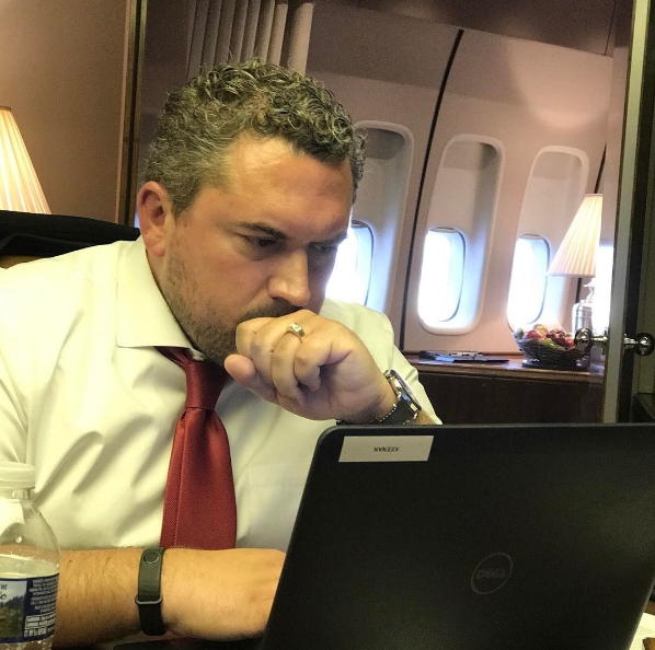 White House Director of Speechwriting Cody Keenan checking Barack Obama's farewell speech one last time aboard Air Force One en route to Chicago.